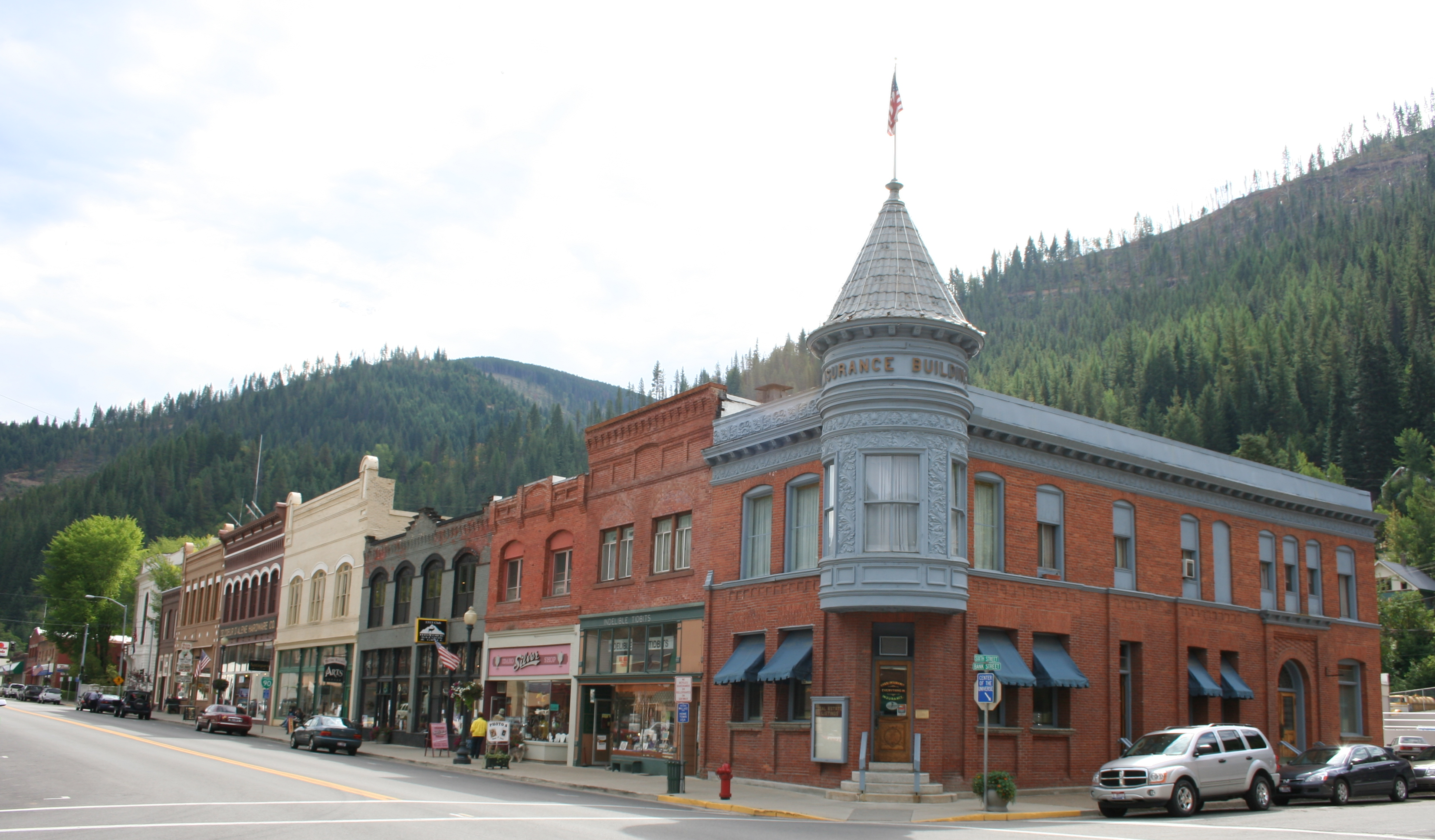 Intersection of Sixth and Bank Streets in Wallace, Idaho, United States. The buildings pictured are part of the Wallace Historic District, which is listed on the National Register of Historic Places.